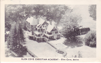 Warrenton